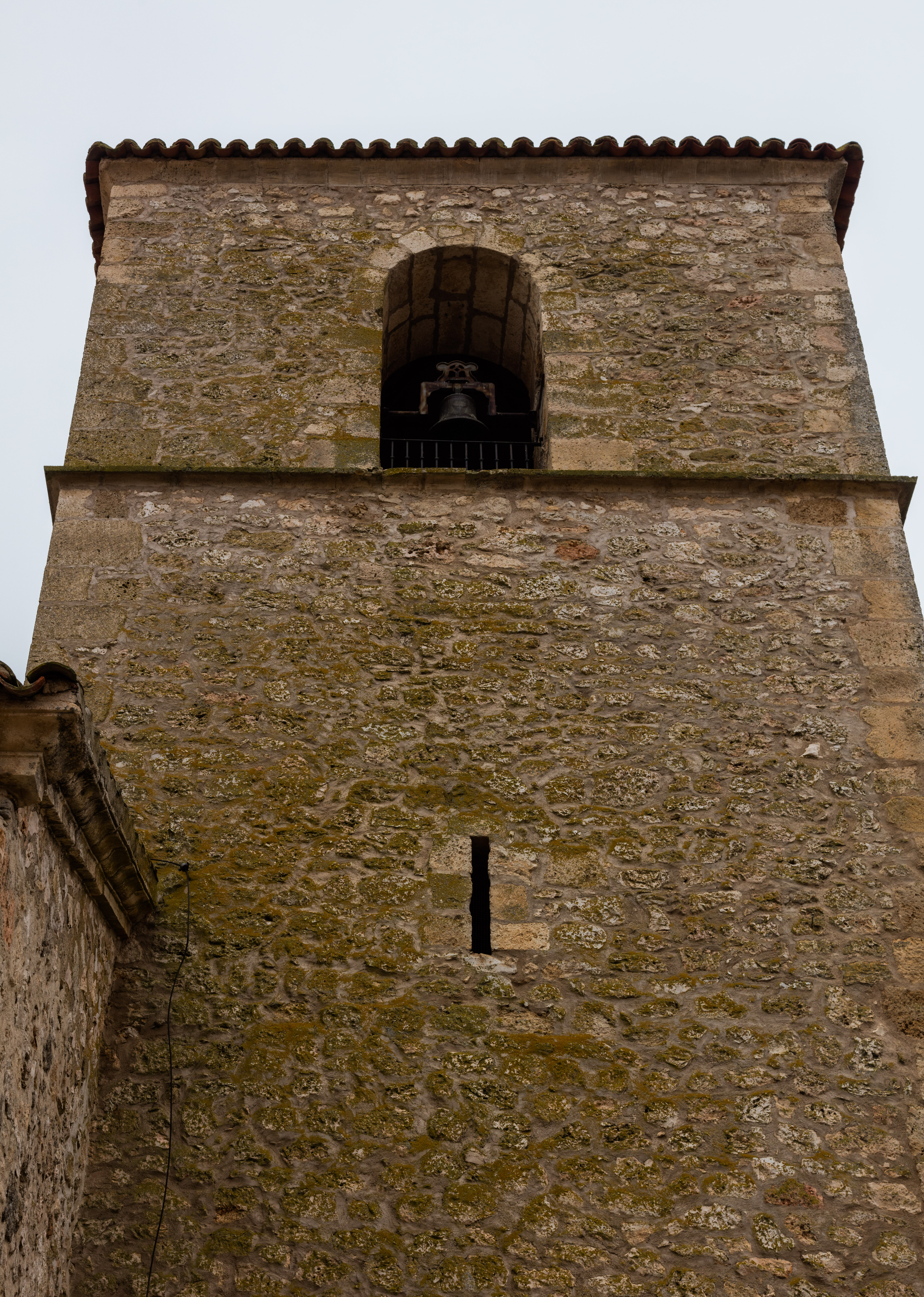 Church of Our Lady of the Assumption, Atanzón, Guadalajara, Spain